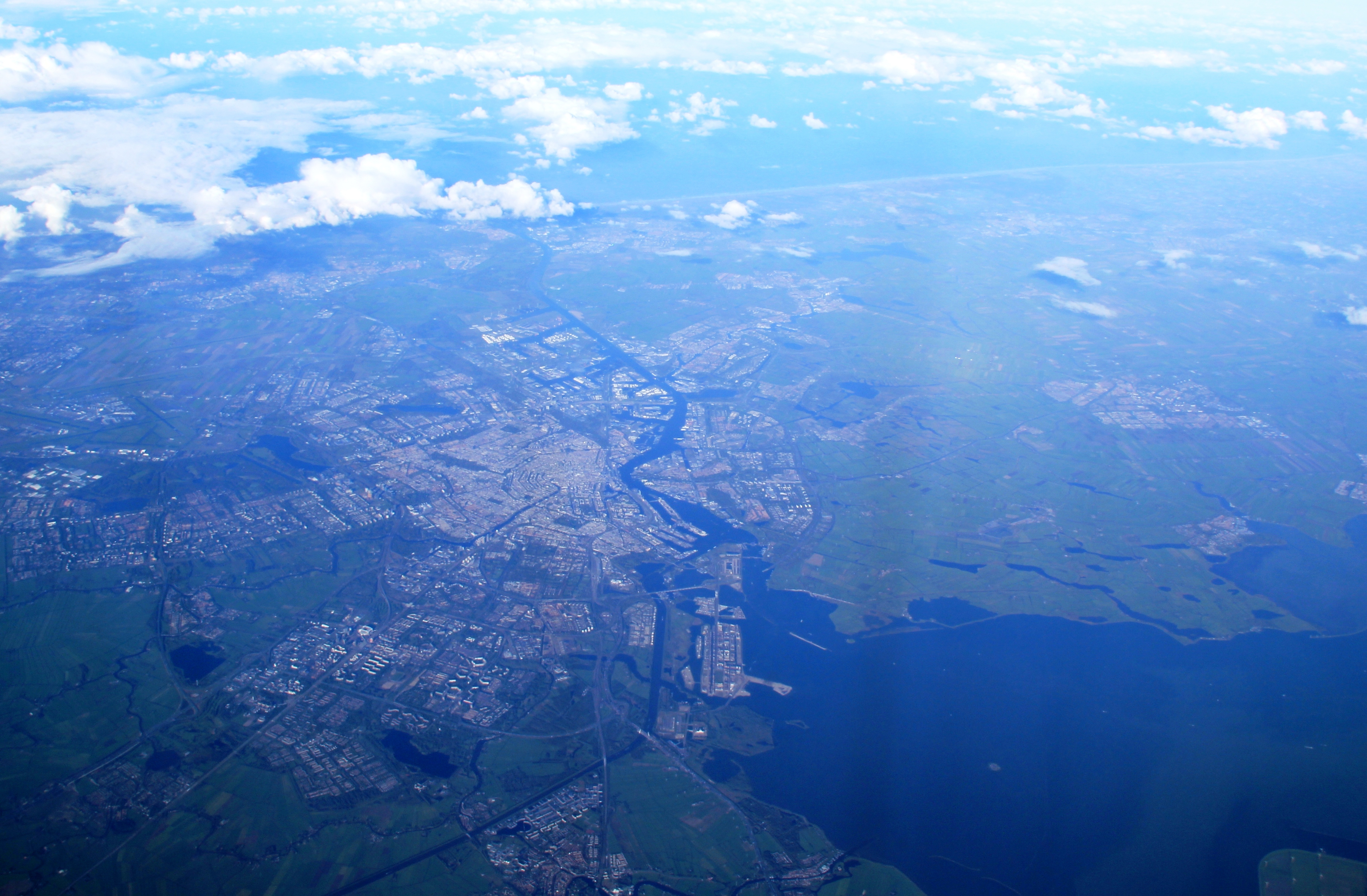 Aerial view of Amsterdam.